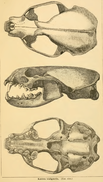 European otter skull